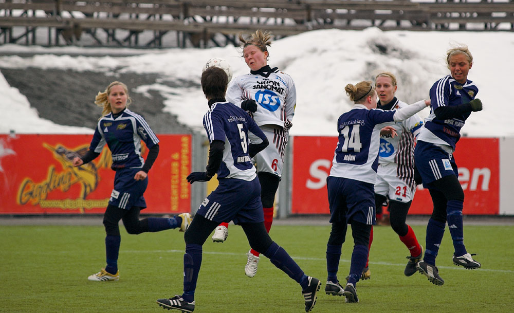 "Ms. Heini Tiilikainen (6) heading the ball." Women's National Championship in Finland. Home team (white) KMF from the city of Kuopio. Away team (blue) Åland United from the Åland islands. Game was played 9th of April 2006 at Magnum Areena, Kuopio. It ended 0-4 (0-0) to visitors, with Annica Sjölund (sister of Daniel Sjölund) scoring two and assisting two. Own work (Juha Makkonen).